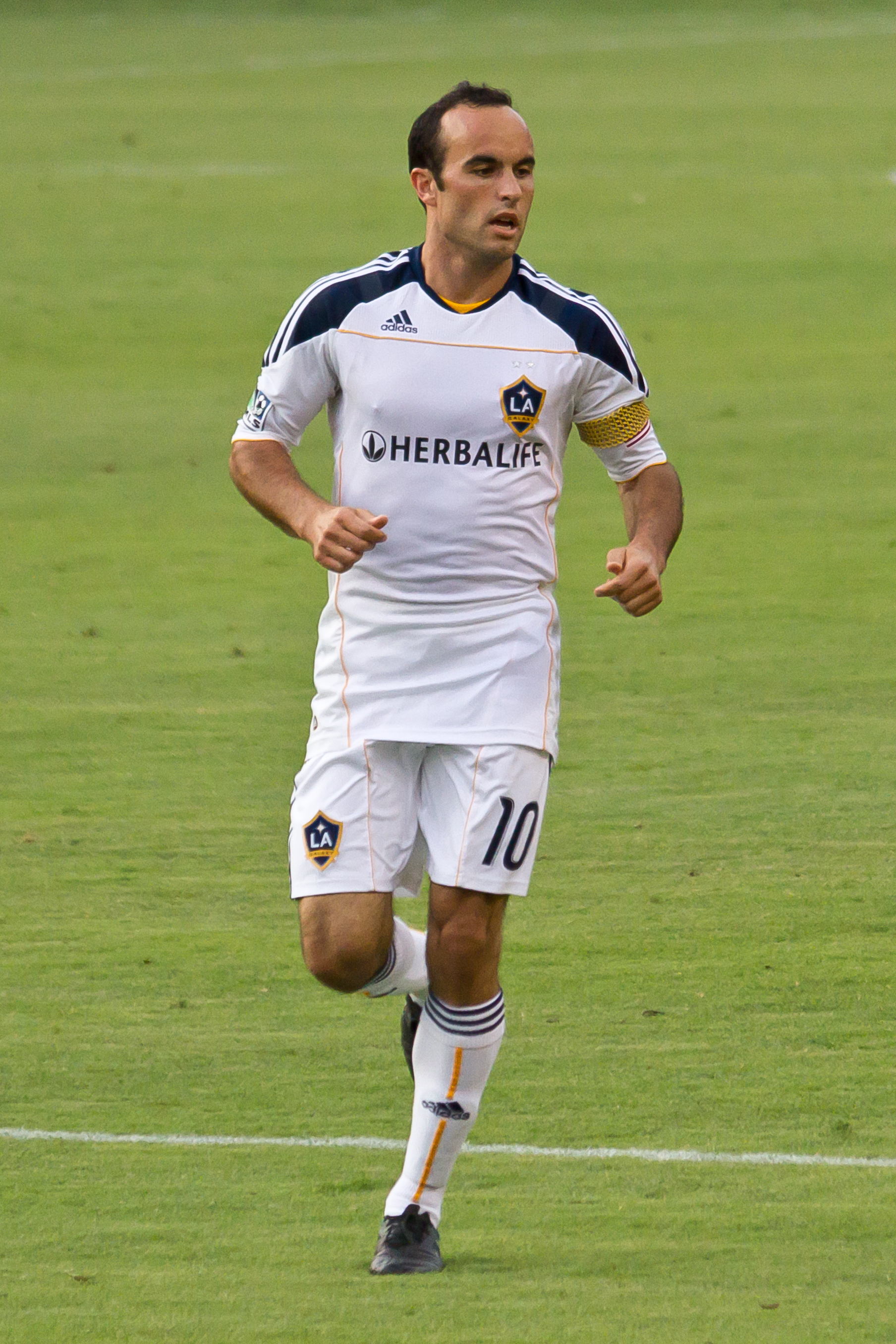 Landon Donovan plays a competitve match for Los Angeles Galaxy, 03OCT2010